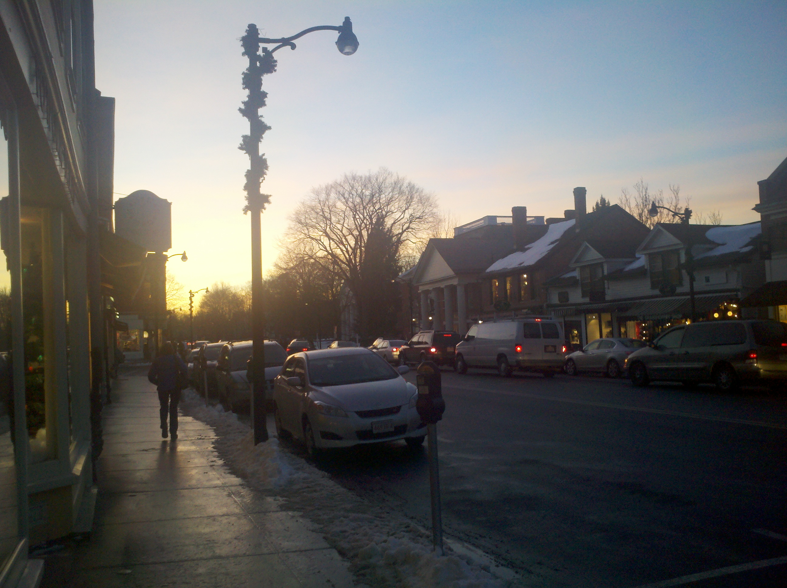 Main street Concord MA at sunset.